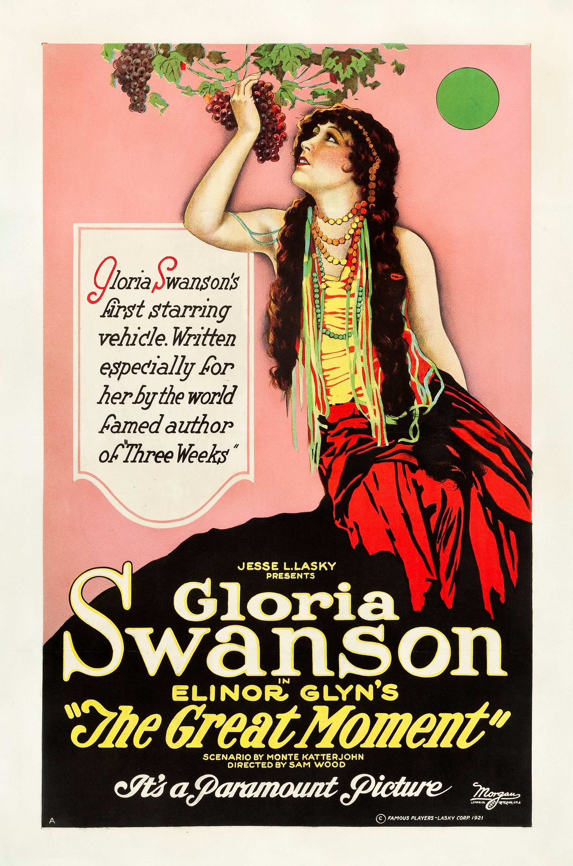 Movie poster for The Great Moment